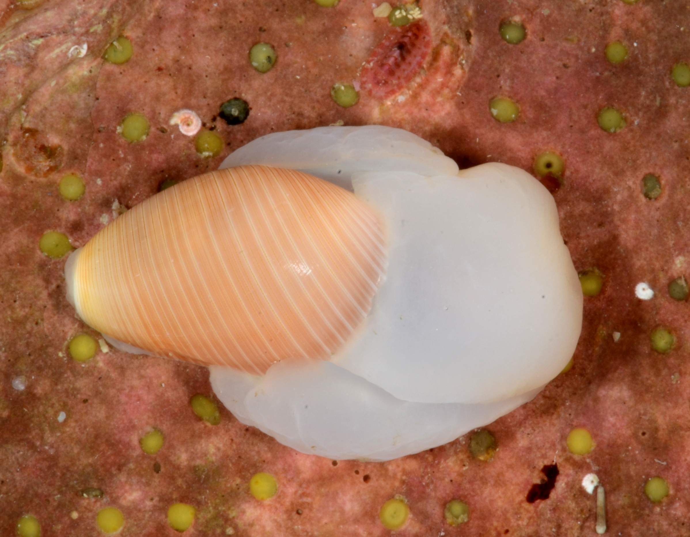 Live specimen of Scaphander lignarius.